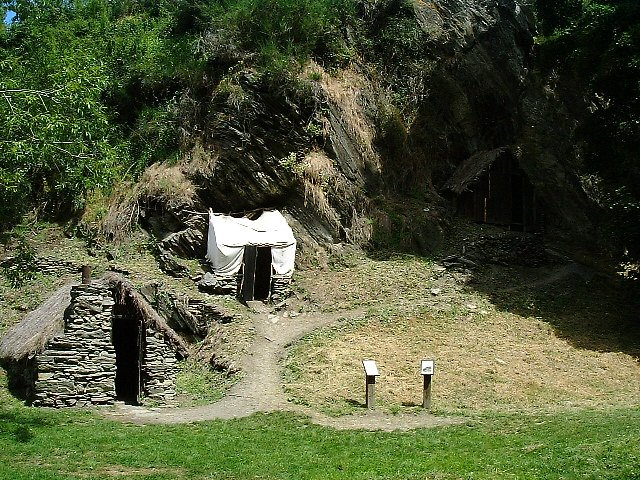 Arrowtown Chinese Kong Kai